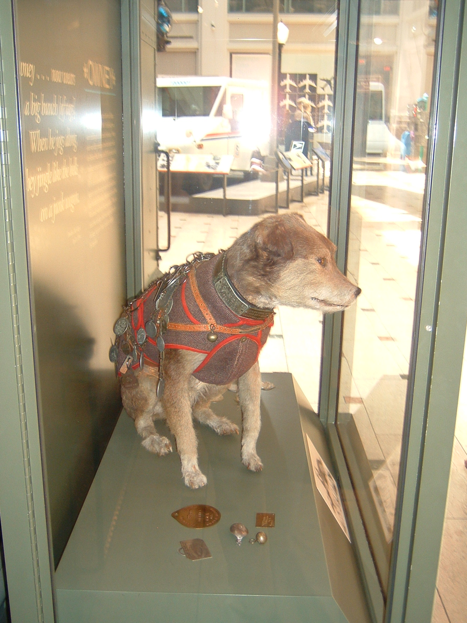 Picture of Owney the postal dog, on display at the U.S. Postal Museum.